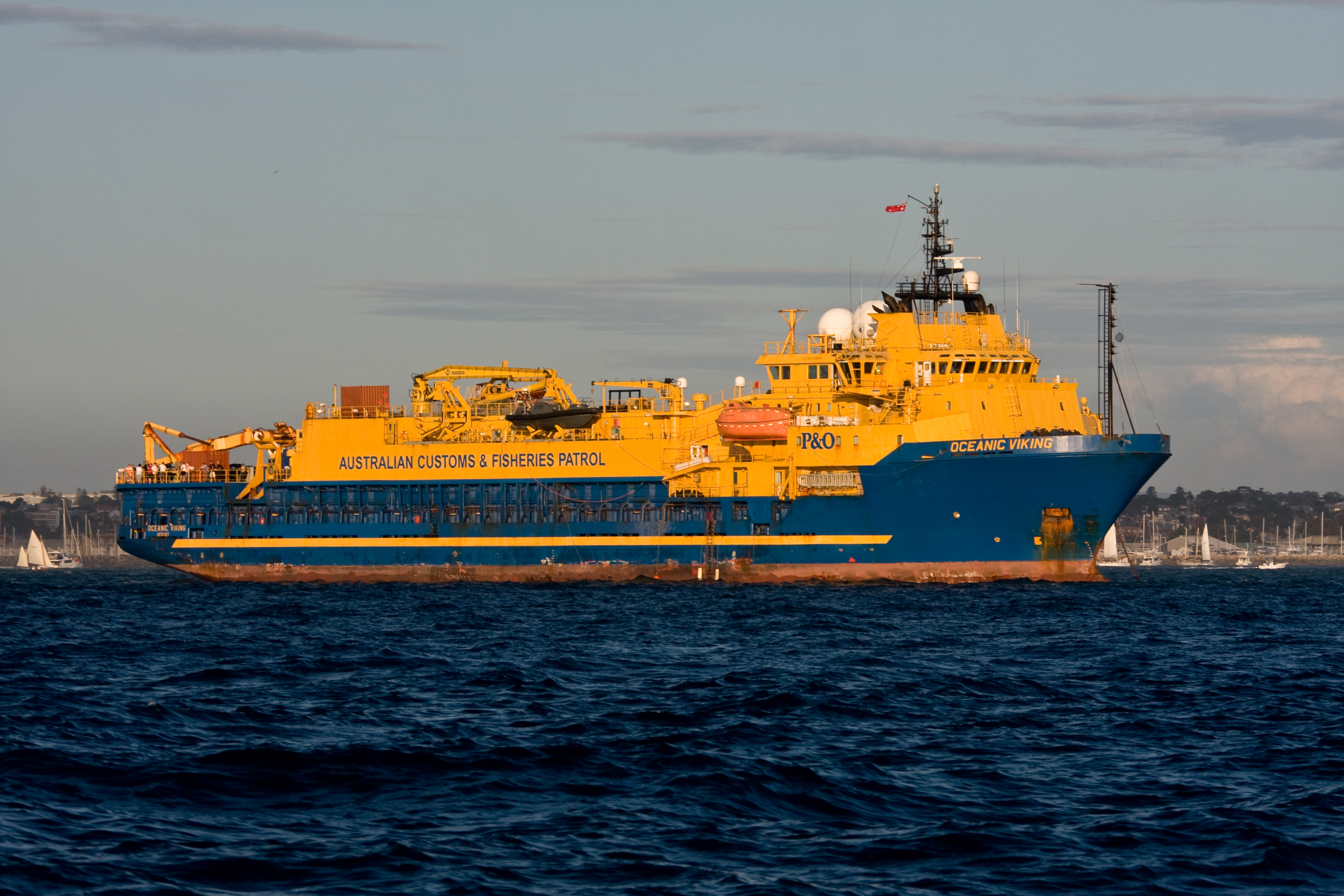 Oceanic Viking had to wait outside the inner harbour of Fremantle Harbour, Western Australia, to make room for the QM2.